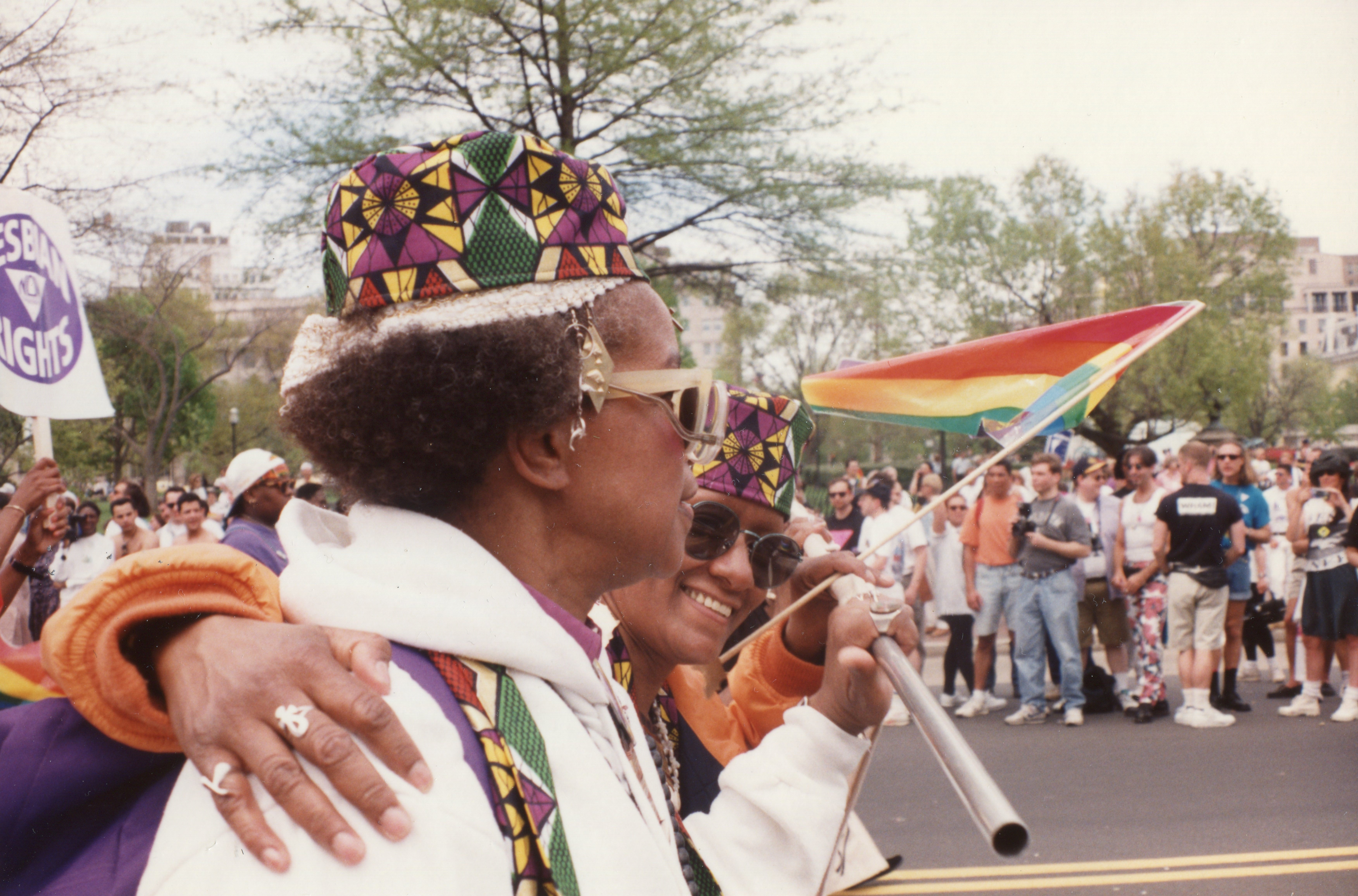 National March on Washington for Lesbian, Gay, and Bi Equal Rights and Liberation in front of the White House at 1600 Pennsylvania Avenue, NW, Washington DC on Sunday afternoon, 25 April 1993 by Elvert Barnes Photography 25 April 1993 LGBT March On Washington at Wikipedia at Elvert Barnes MARRIAGE EQUALITY ongoing project at